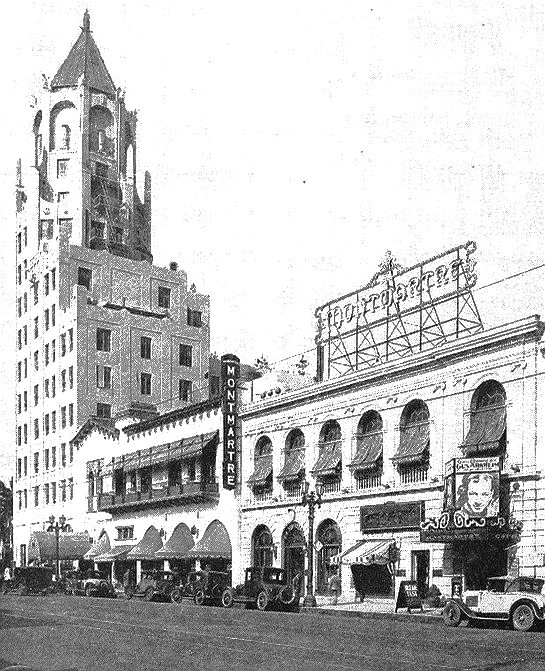 Photo of the exterior of the Hollywood, California restaurant Montmartre.